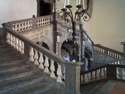 Private photo taken and uploaded by user Jeffmatt| 07:01, 10 October 2006 (UTC). No rights claimed. Private photo taken and uploaded by user Jeffmatt 07:01, 10 October 2006 (UTC). No rights claimed.